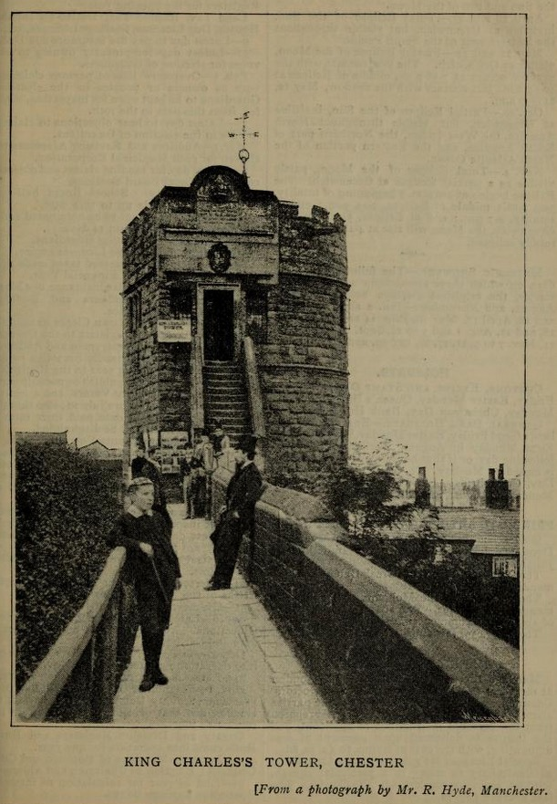 caption: from a photograph by Mr. R Hyde, Manchester Original item here.